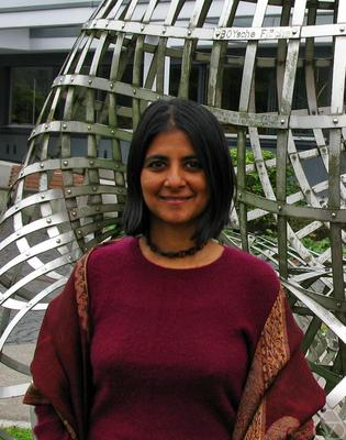 Picture of Kavita Ramanan